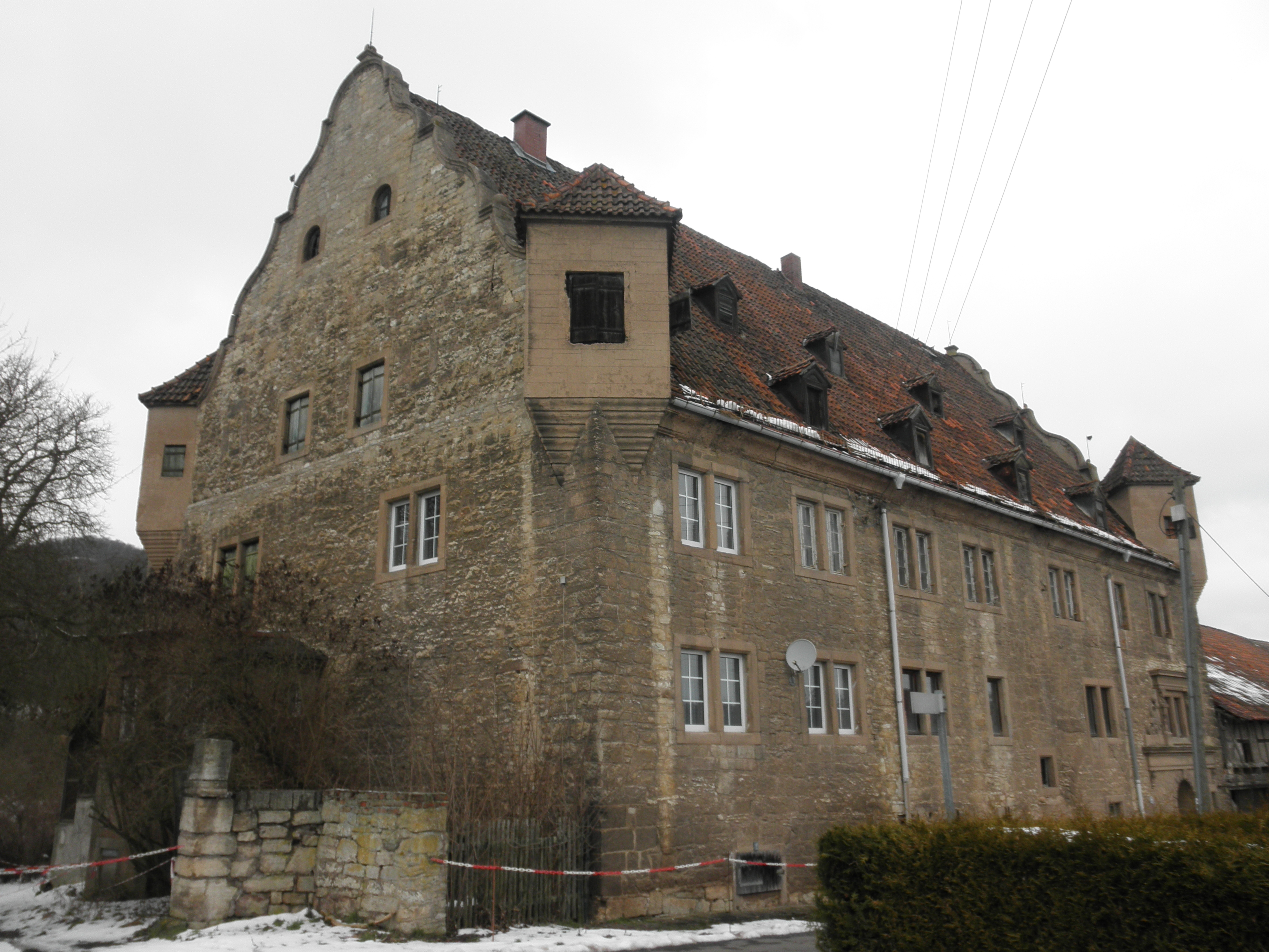 Castle in Wernrode (Wolkramshausen) in Thuringia